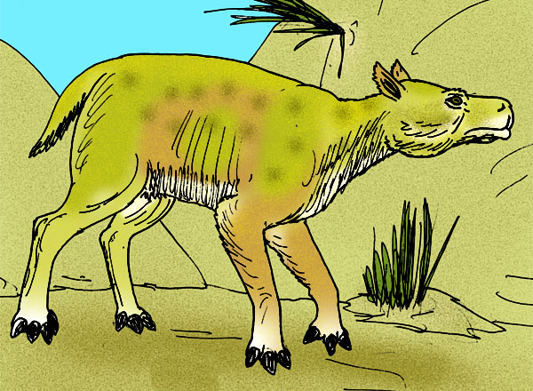 Crop of file in filename